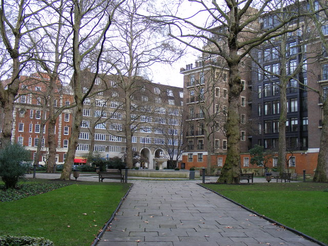 St John's Gardens This former graveyard of St. Johns Church, Smith Square is now public gardens. The garden was re-landscaped in 2000/01. The picture was taken from Page Street Entrance Looking toward Horseferry Road. The building to the right is the former Westminster Hospital now luxury flats.